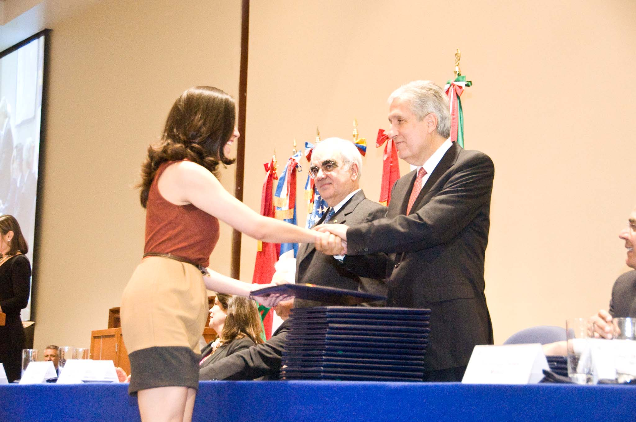 Graduation ceremony at ITESM, CCM.